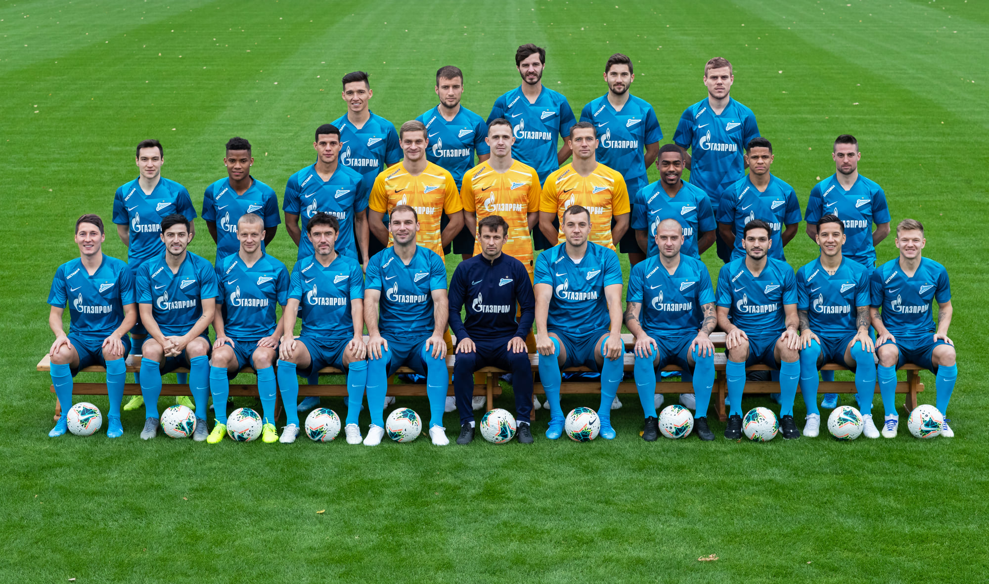 FC Zenit players. Official photo for 2019-2020 season